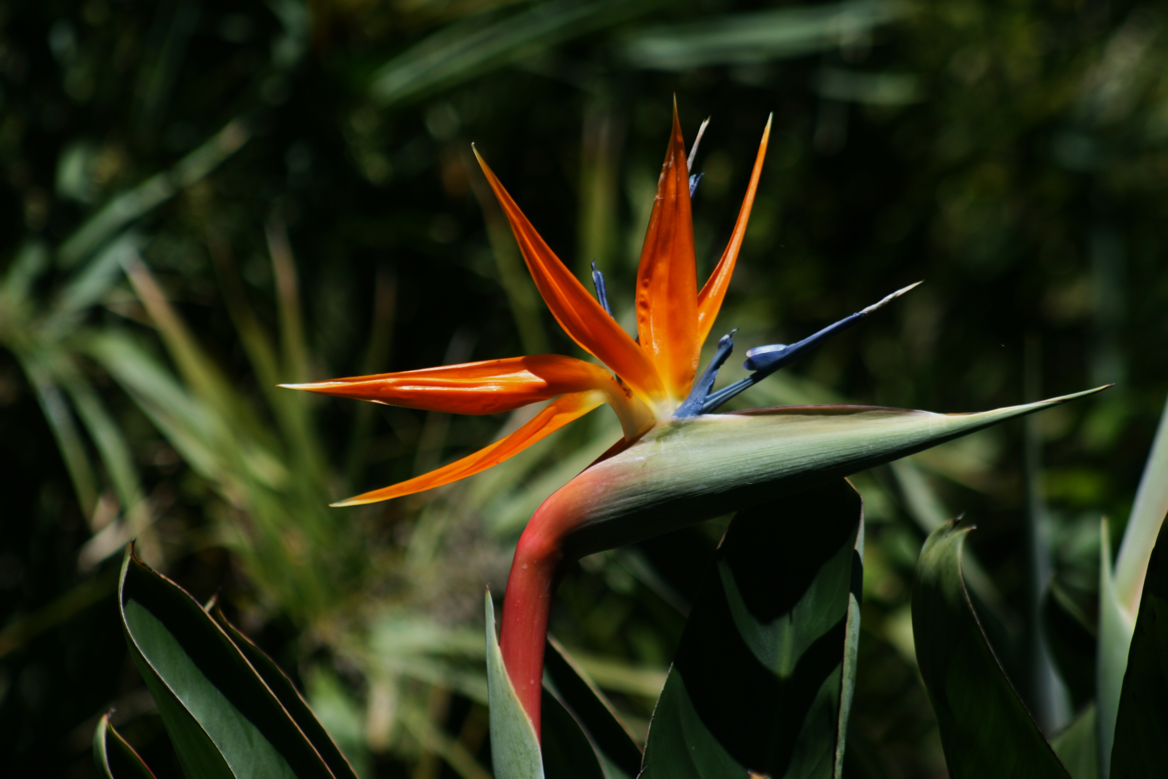 Strelitzia reginae or Bird of Paradise